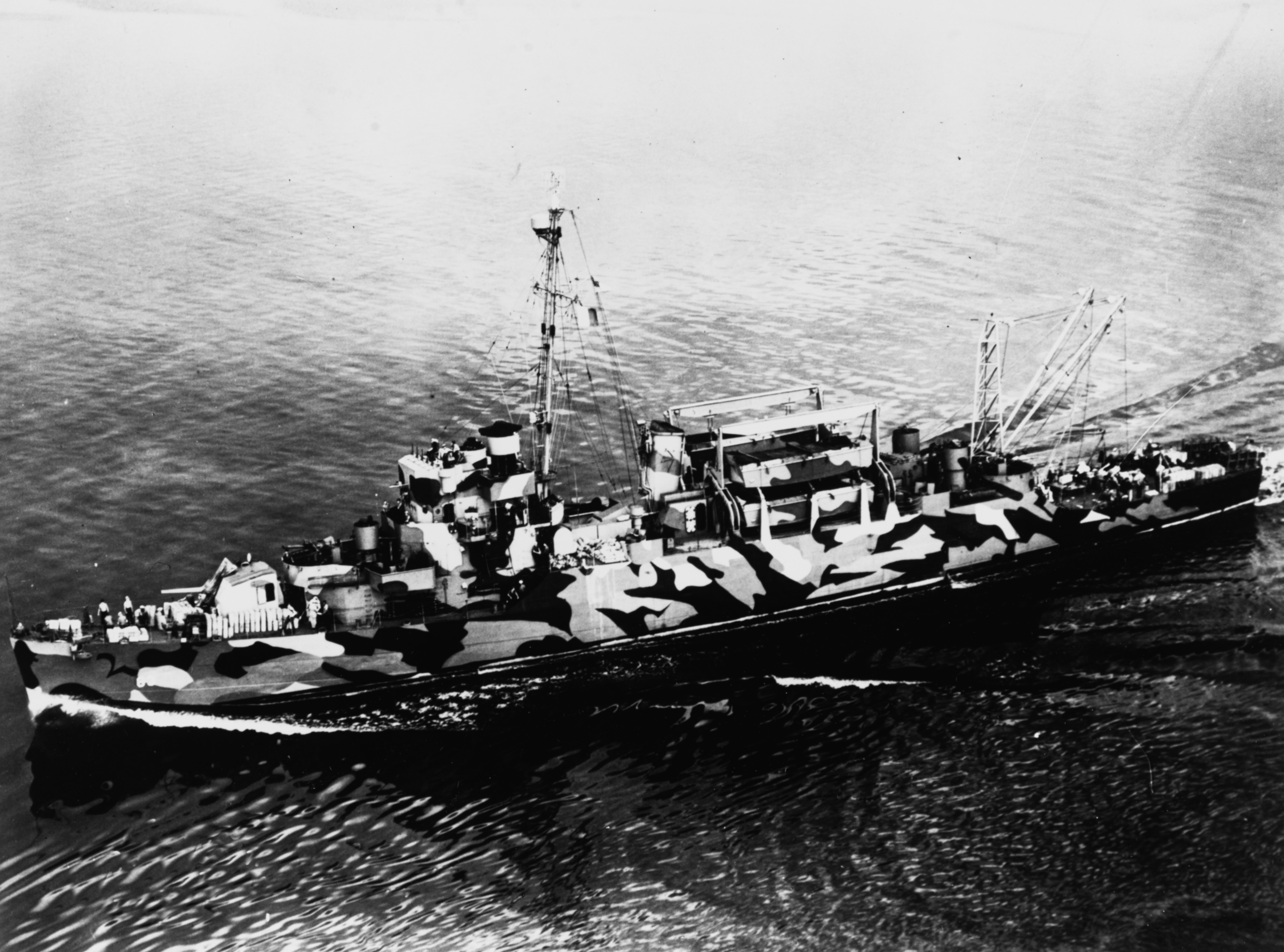 The U.S. Navy high-speed transport USS Lloyd (APD-63) underway off the Philadelphia Naval Shipyard, Pennsylvania (USA), on 15 September 1944.